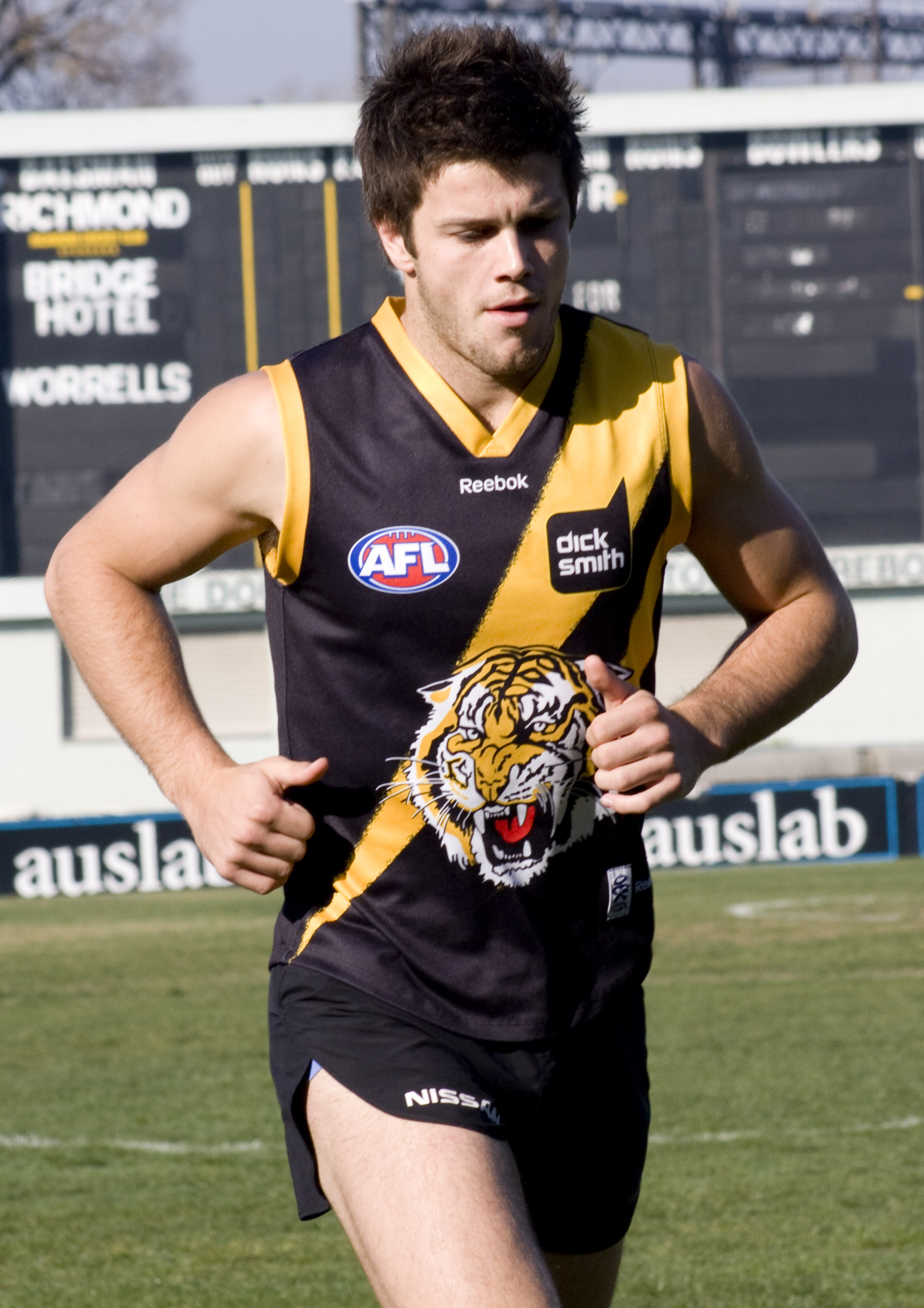 Trent Cotchin